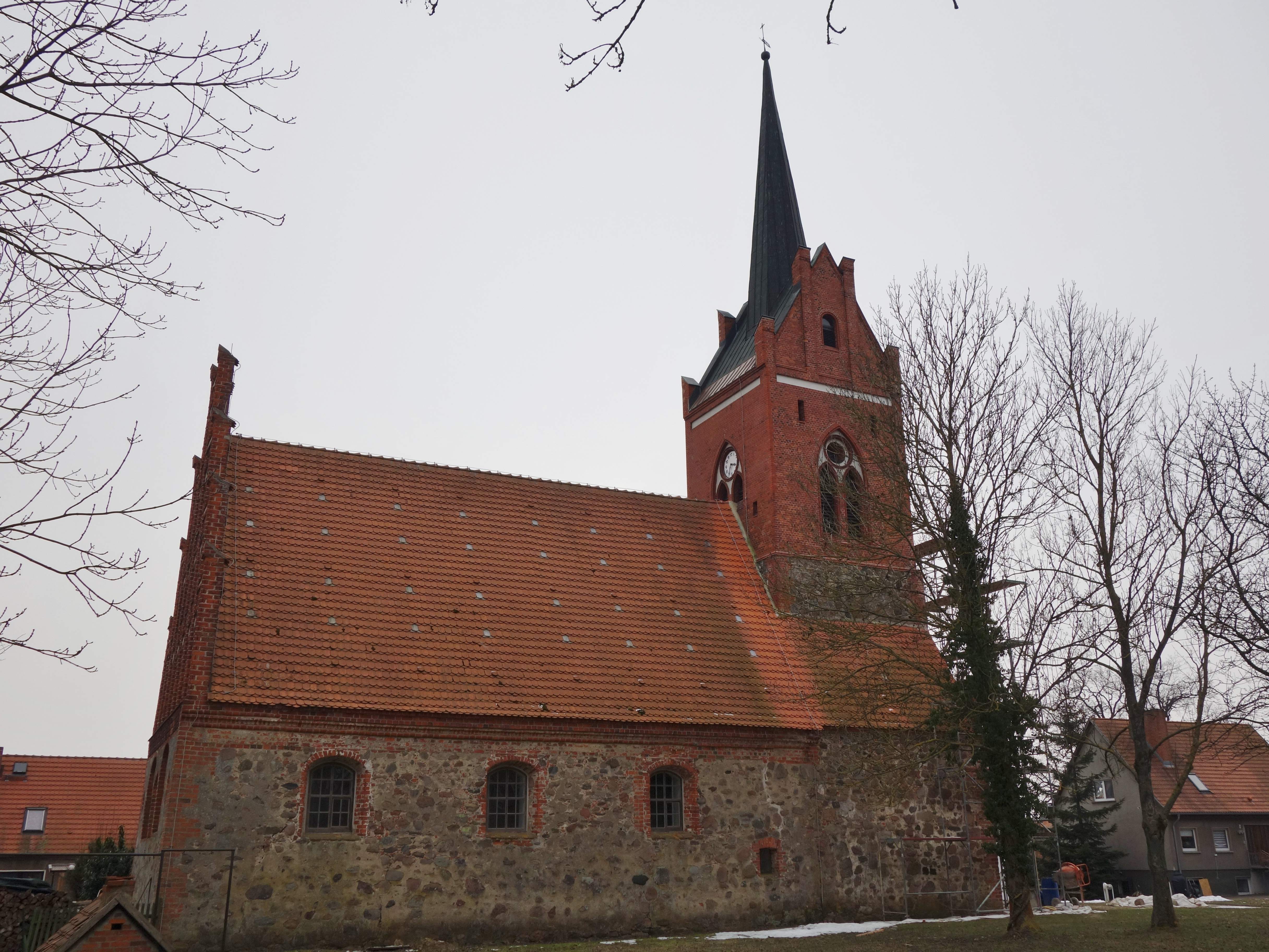 North-eastern view of church in Falkenhagen, Pritzwalk municipality, Prignitz district, Brandenburg state, Germany